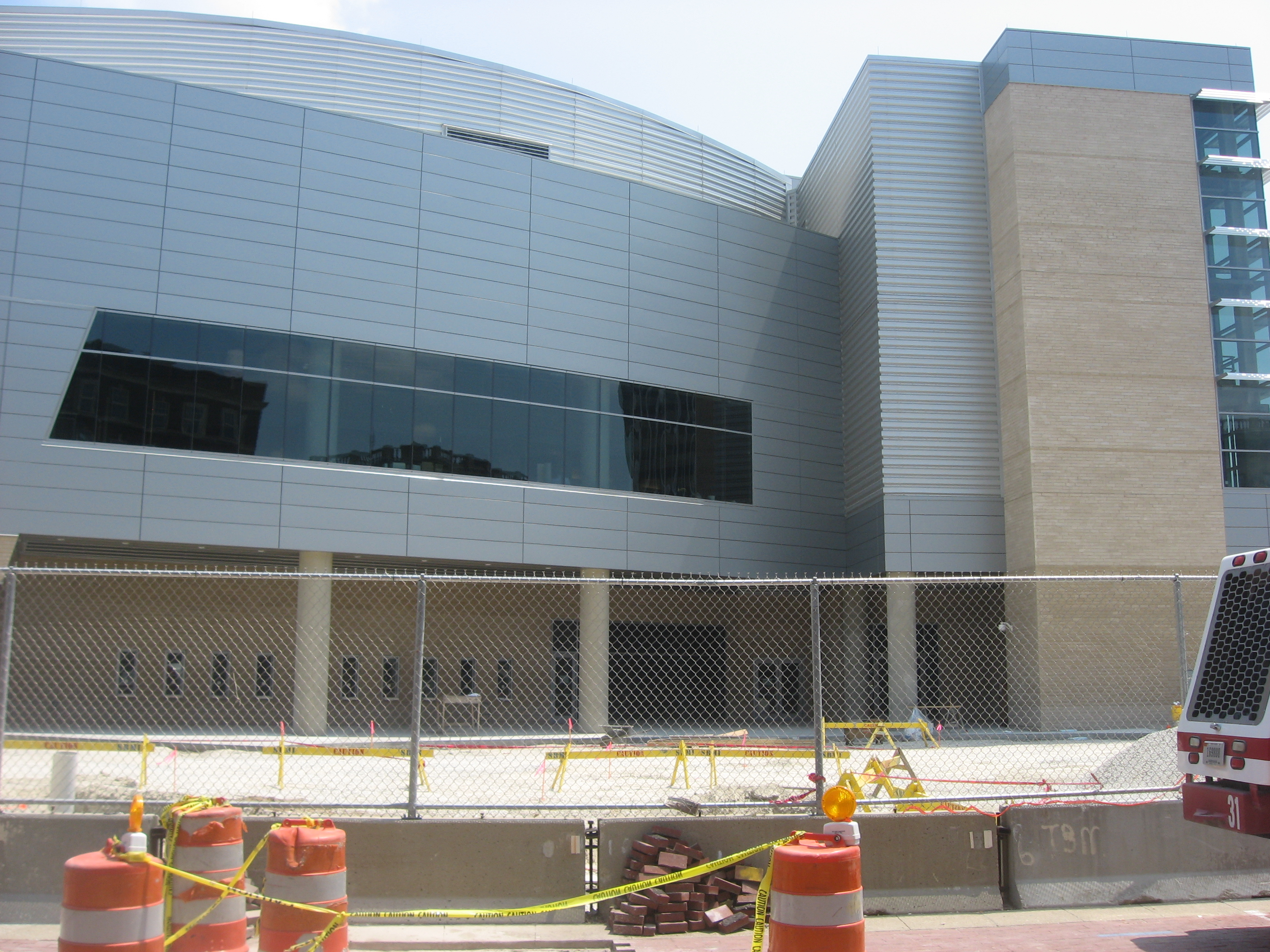 Site of the Gemcraft-Wittmer Building, located at 609 Main Street in Evansville, Indiana, United States. Built in 1892, it was listed on the National Register of Historic Places in 1984; although it has been demolished for the construction of the Ford Center, it remains on the Register.